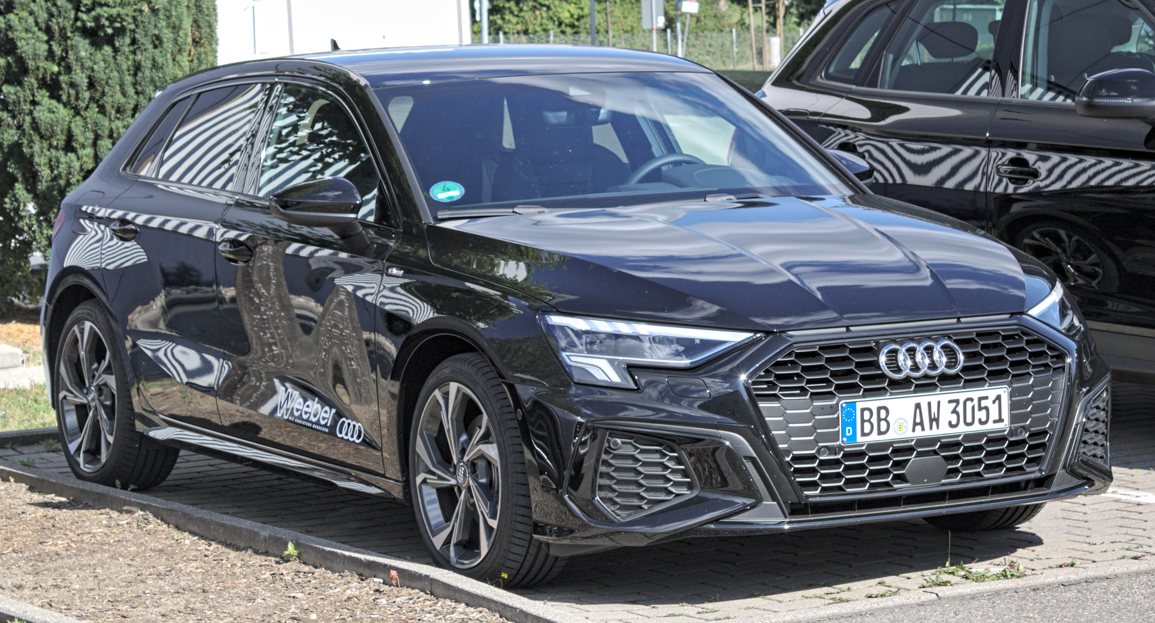 Audi_A3_8Y in Herrenberg